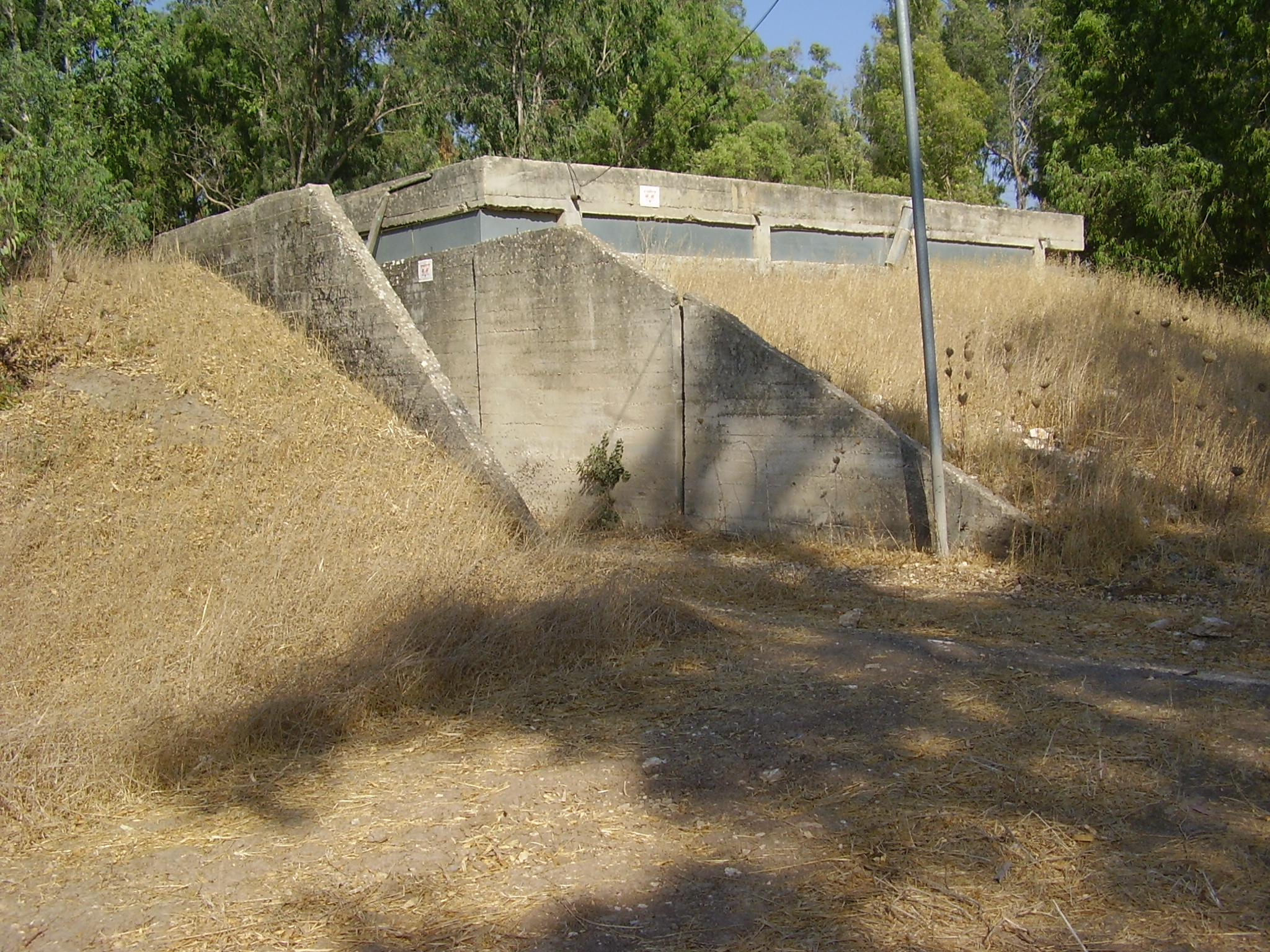 The bunkers picnic site in Jezre'el valley